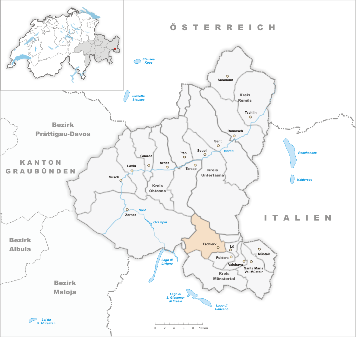 Municipality Tschierv